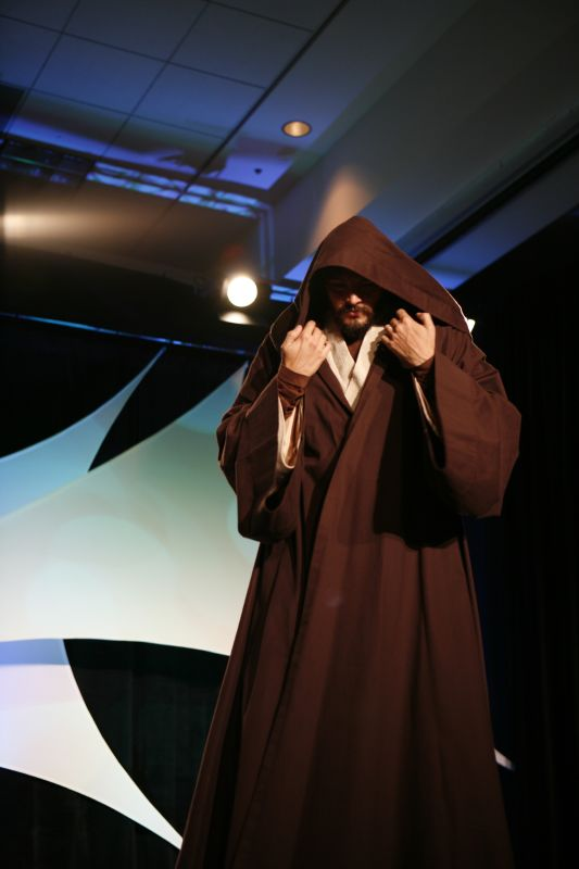 Photo by Scott Ruether. Read more at the Official Celebration IV blog. Costumes at Star Wars Celebration IV in 2007 at the Los Angeles Convention Center in Los Angeles.